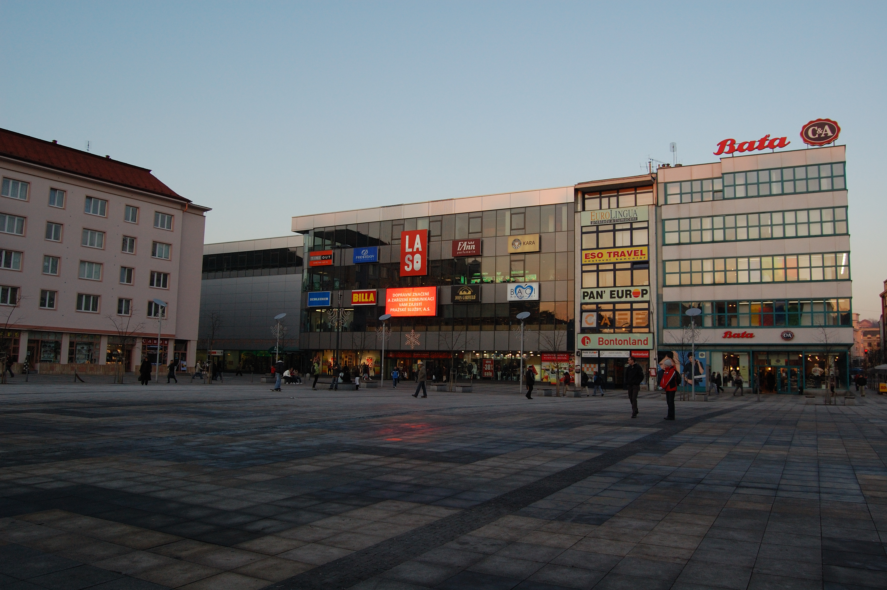 Masaryk's square in Ostrava, Czech republic.